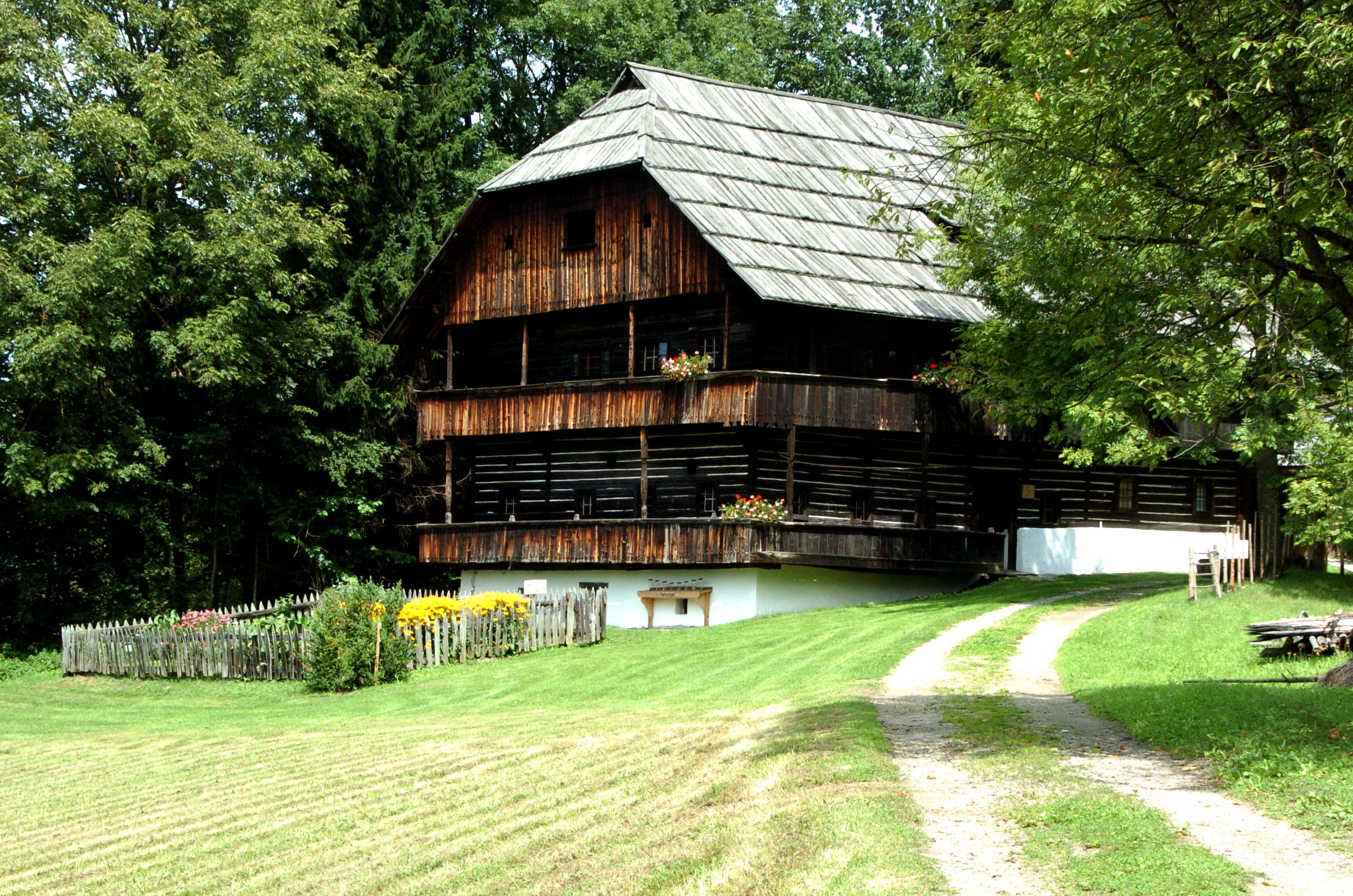 Kramer-farmhouse from Gnesau (district Feldkirchen) from the 19th century, open air museum on Museumweg in Maria Saal, municipality Maria Saal, district Klagenfurt Land, Carinthia, Austria